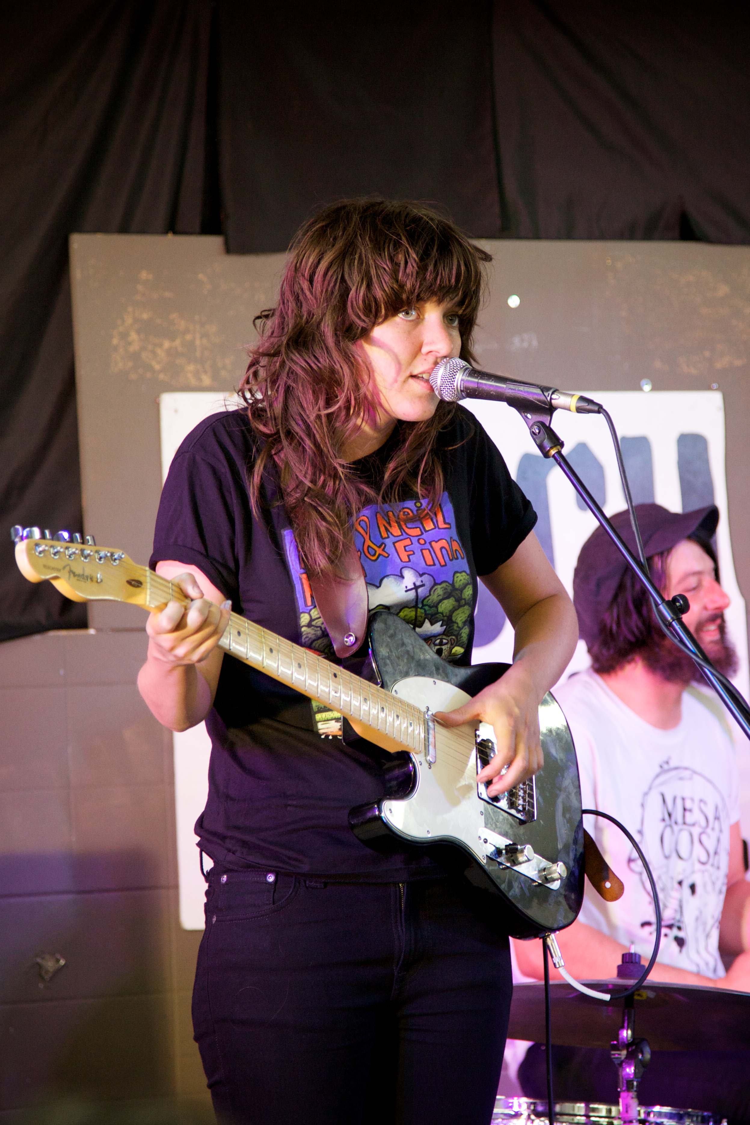 Courtney Barnett performing at Rough Trade East in 2014